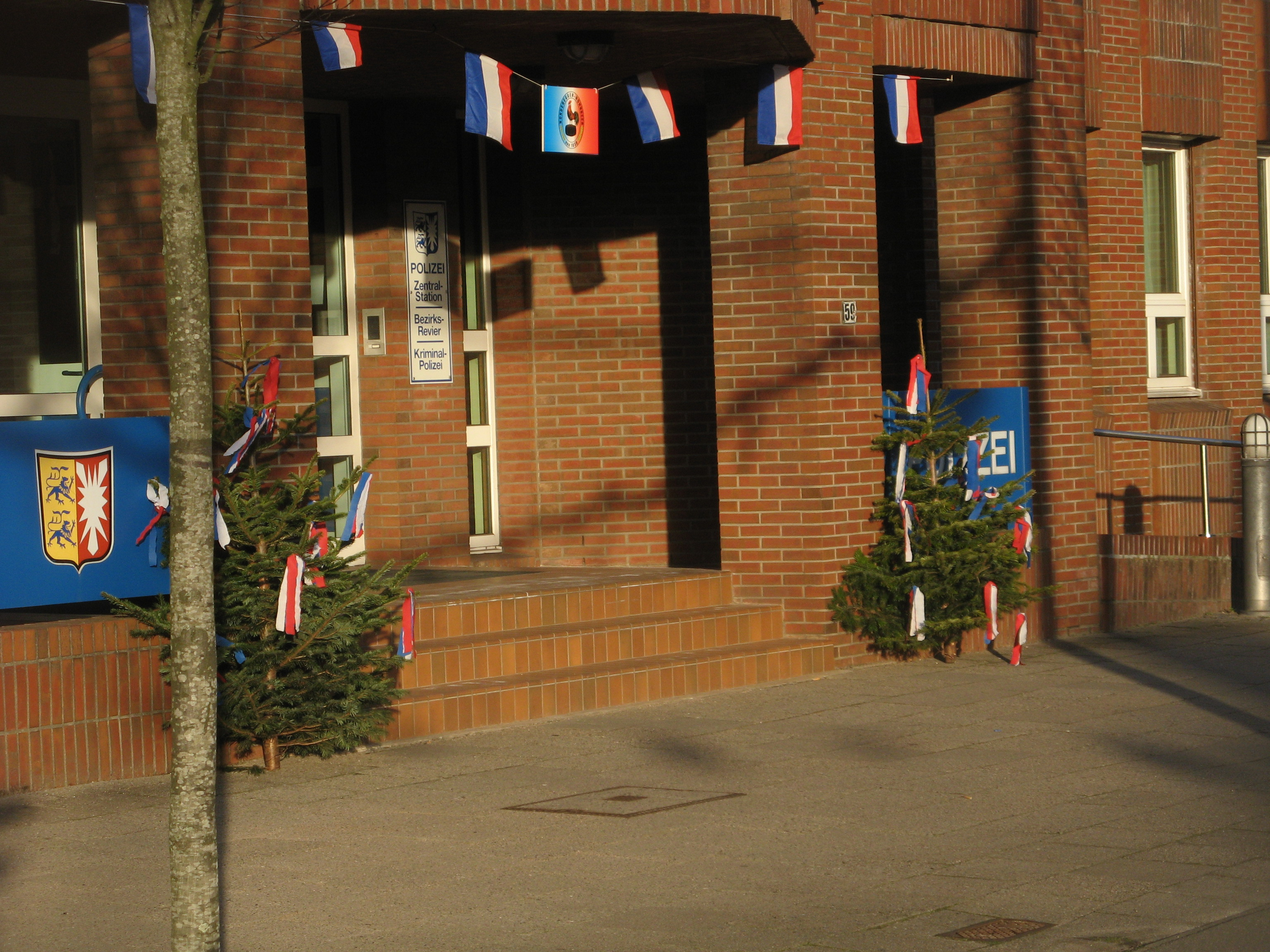 Police stations in Heide, Dithmarschen region, with flags for Hohnbeer. Hohnbeer is a traditional event in late winter/early spring where the three "Eggen" (neighbourhood)of the town of Heide - the northern Egge, the Easter Egge and the Souther Egge, celebrate neighbourhood and solidarity. It comes from a time when there was no administration of the town and common deeds hab to be done.